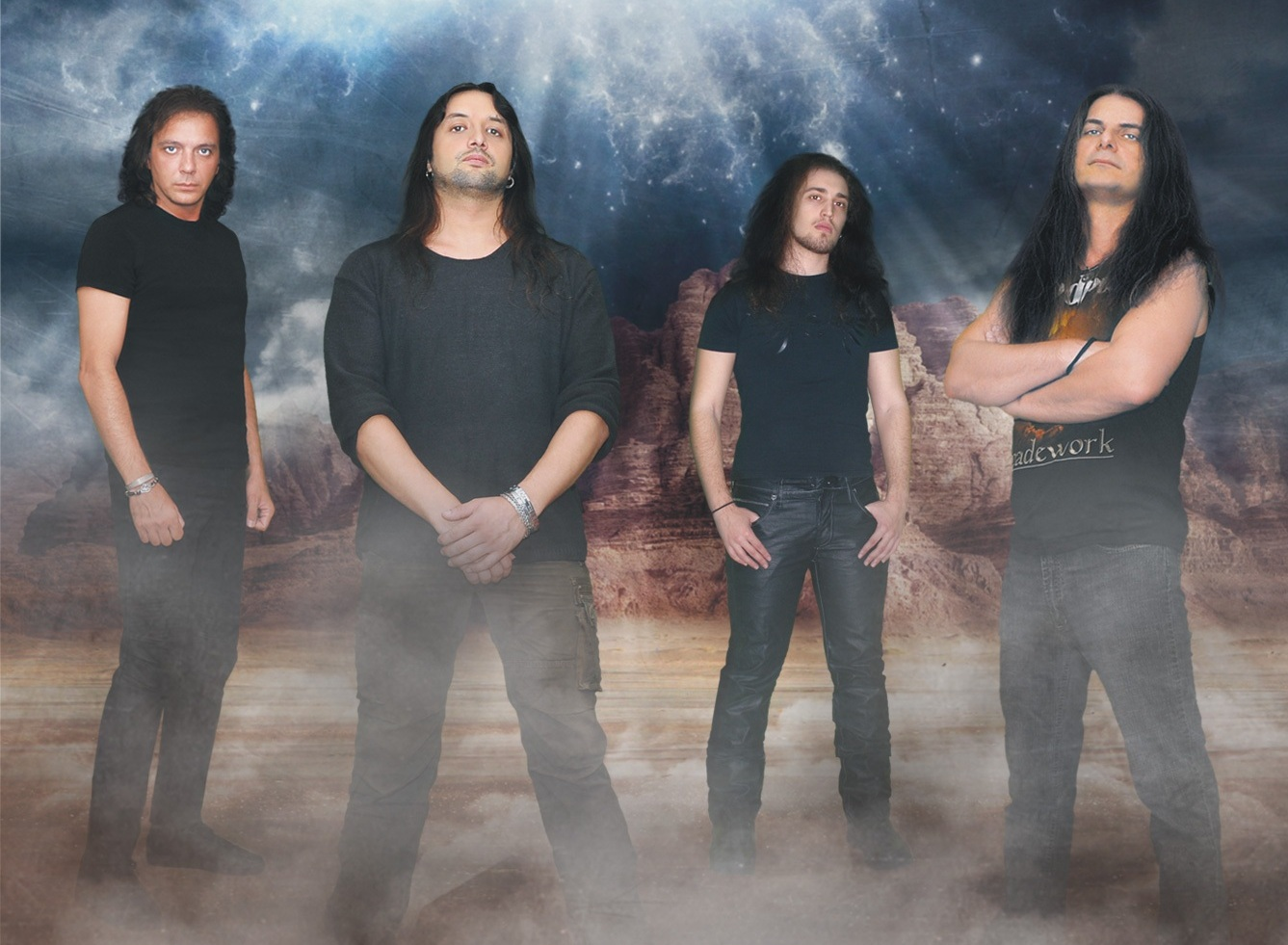 Picture of the band "Wardrum"